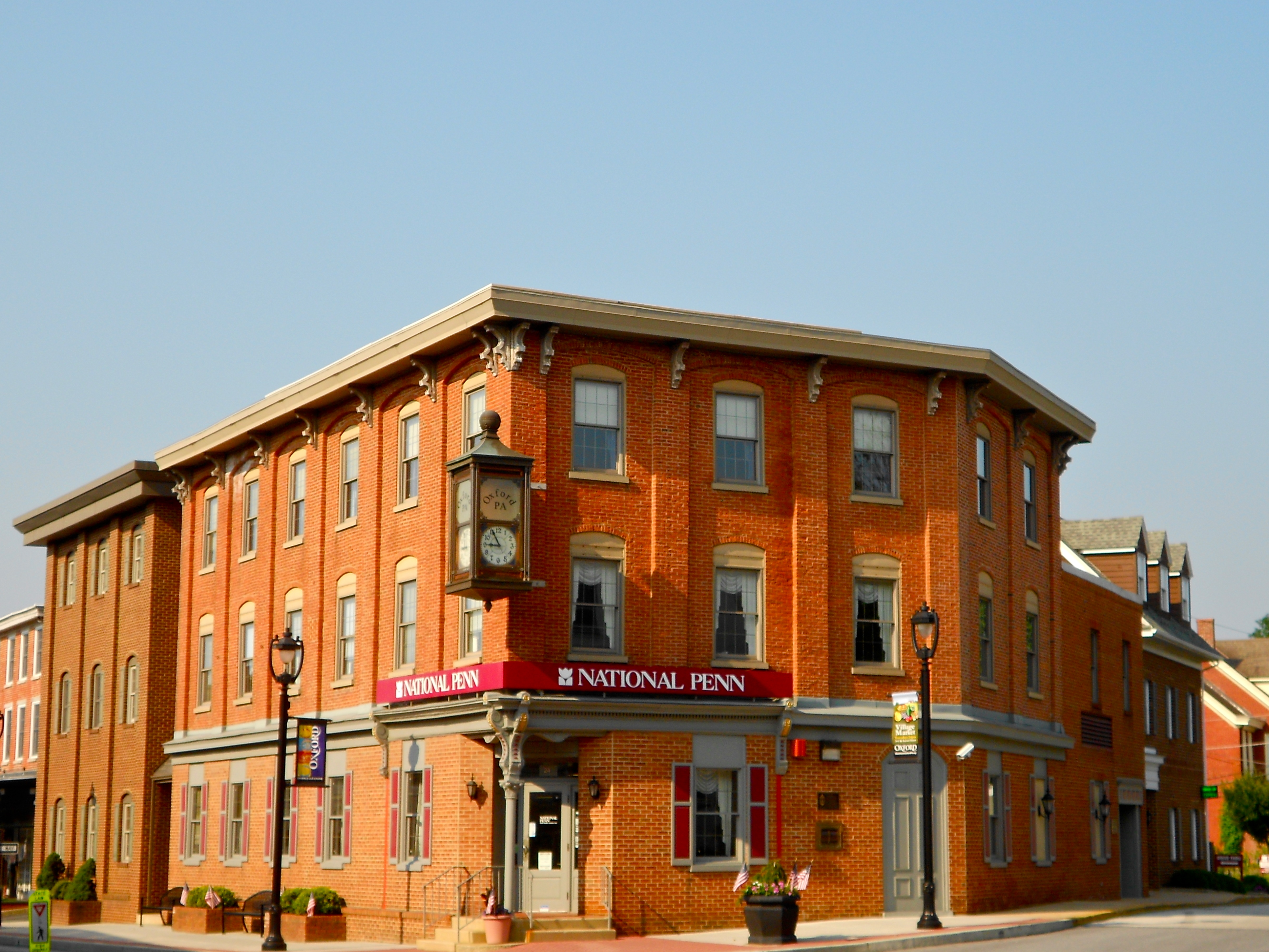 Building in the Oxford Historic District on the National Register of Historic Places since February 1, 2007. the district is roughly bounded by Church Road (N), Chase Street (E), and Hodgson Street (S).